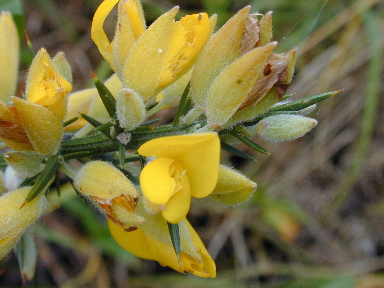 Ulex europaeus (flowers). Location: Maui, Makawao Forest Reserve